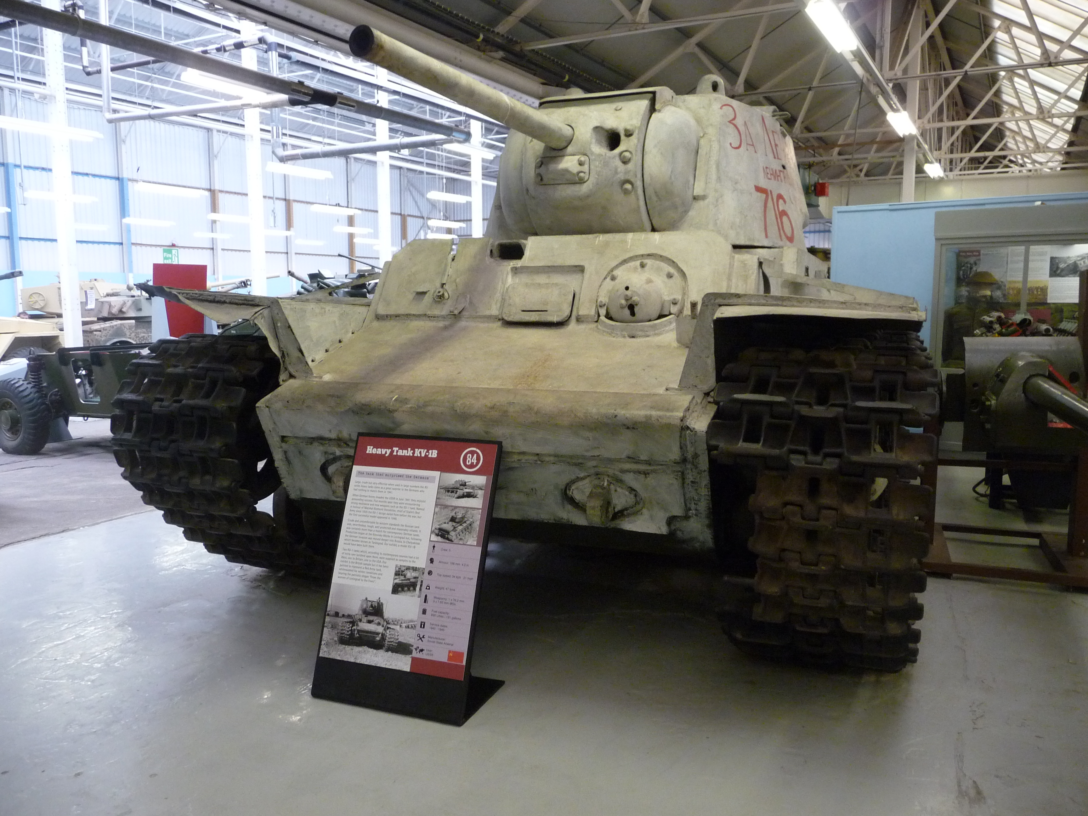 KV-1 heavy tank in the Bovington Tank Museum.